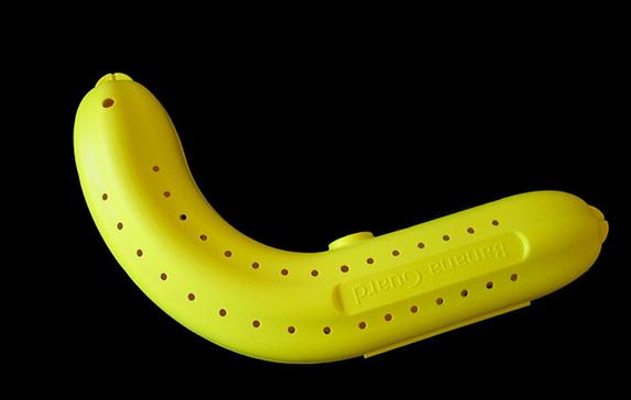 Banana Guard